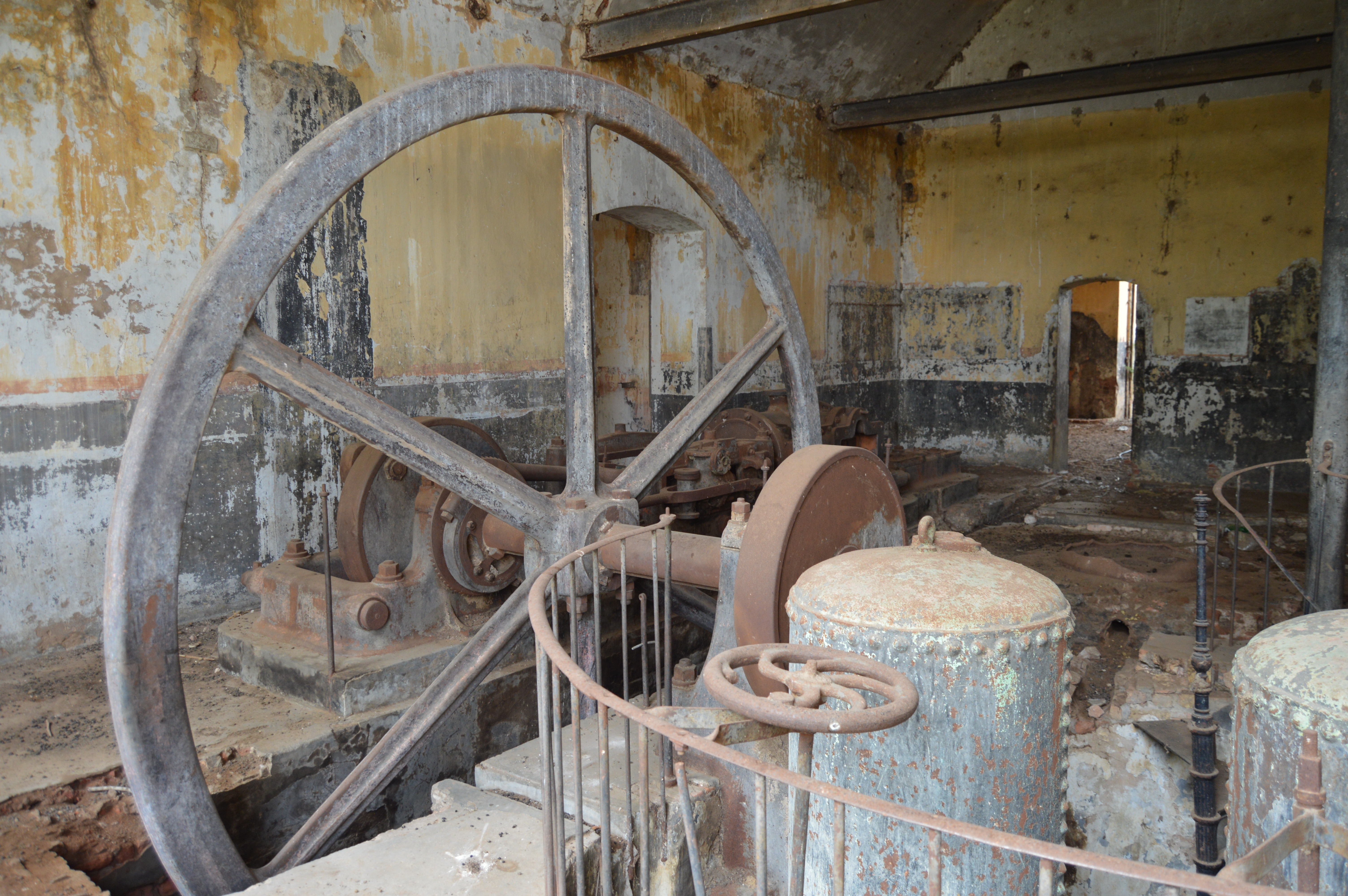 Ancient Mbakhana Water Factory, nearby Saint-Louis, Senegal; oldest sub-saharian african existing steam engines.